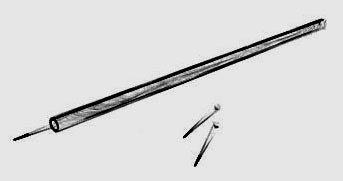 Fukiya, a Japanese blowgun (possibly a weapon of the Ninja)